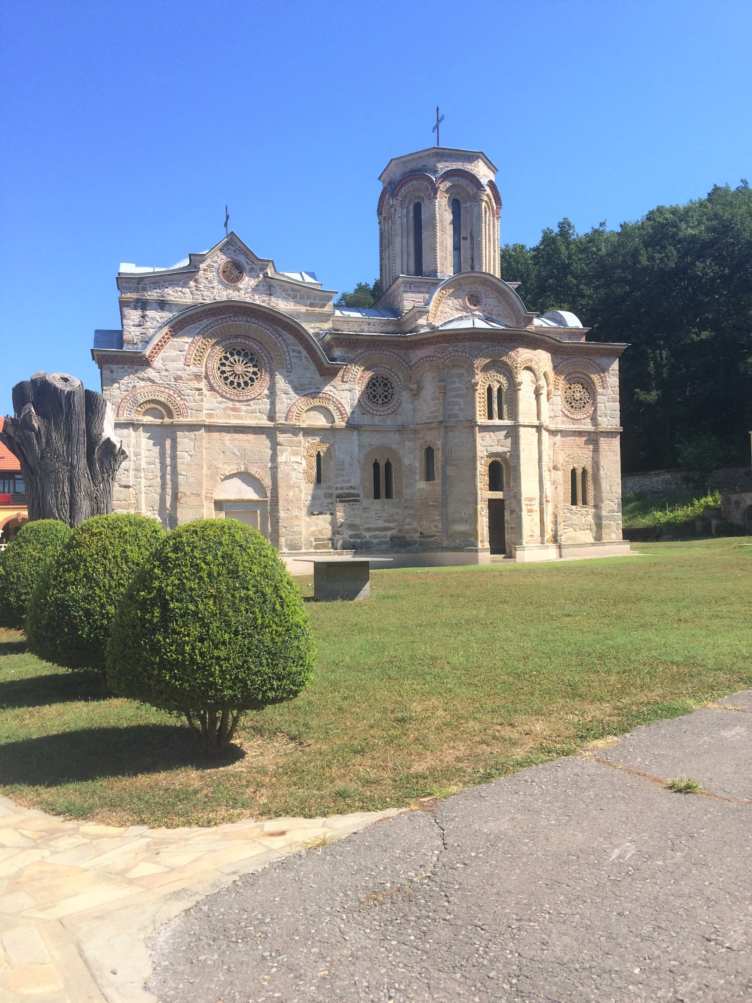 Manastir Ljubostinja